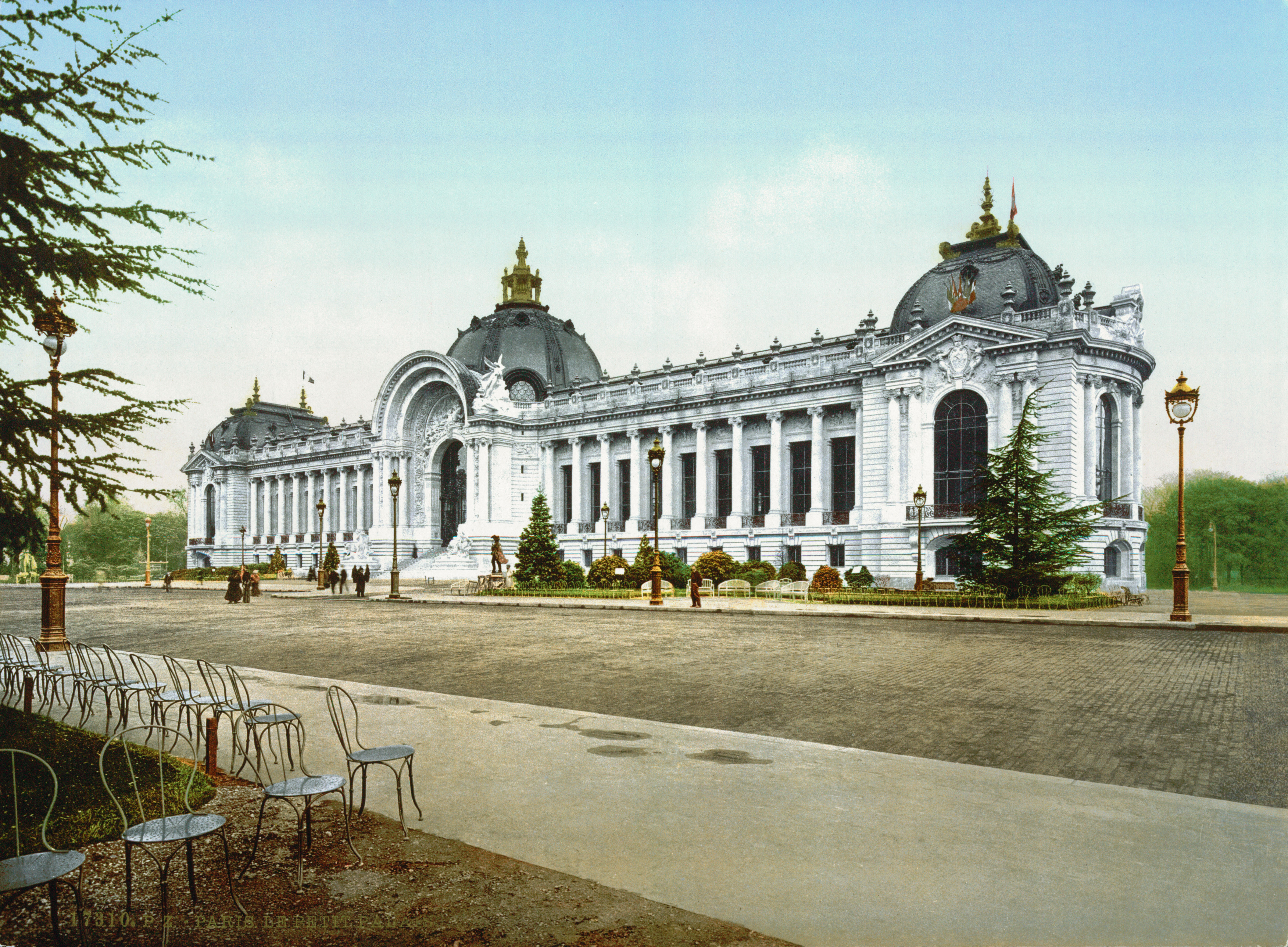 Exposition Universal, 1900, Paris, France